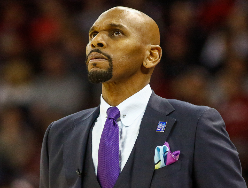 Jerry Stackhouse Photo by Chris Gillespie